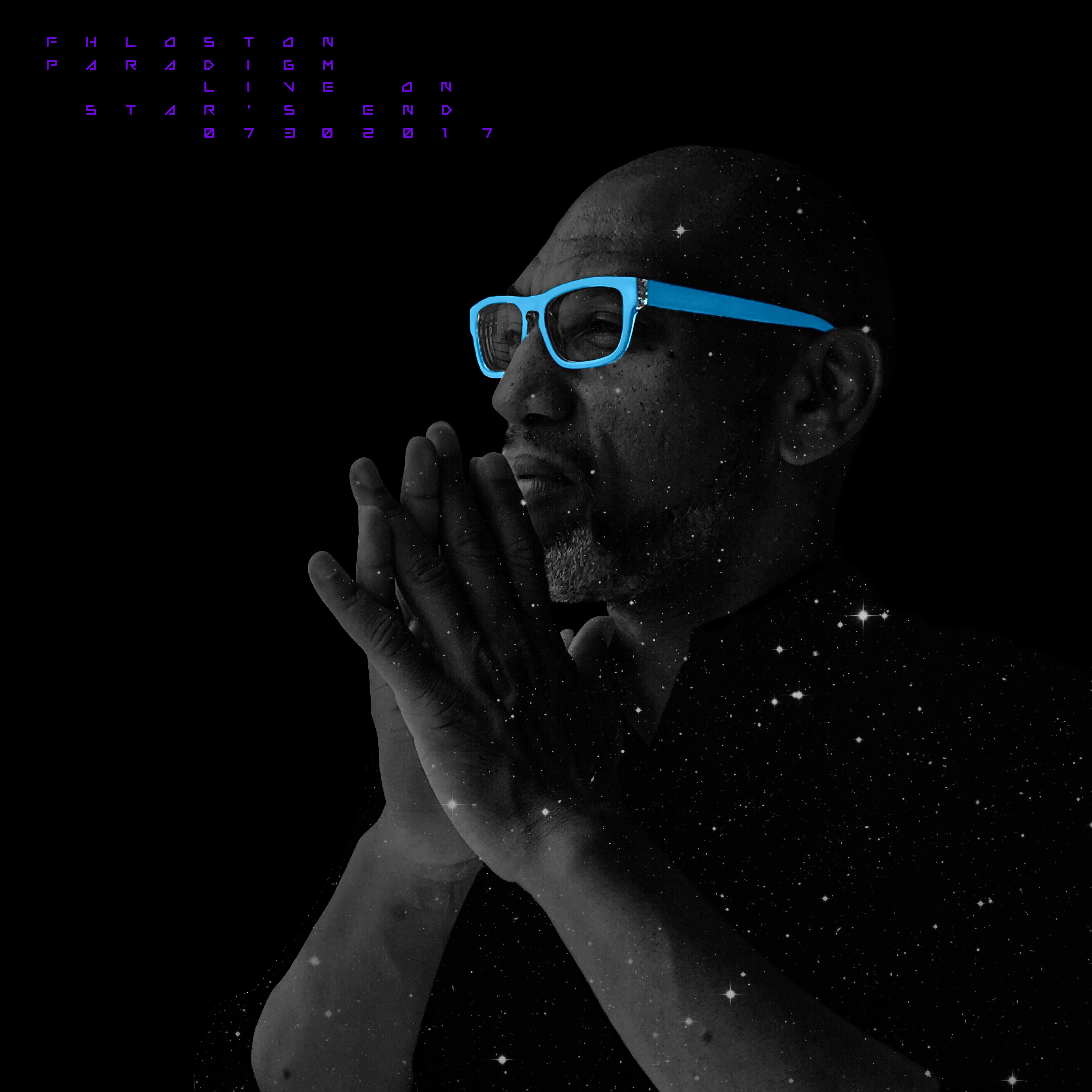 KING BRITT NEW PHOTO FROM ALBUM FHLOSTON PARADIGM